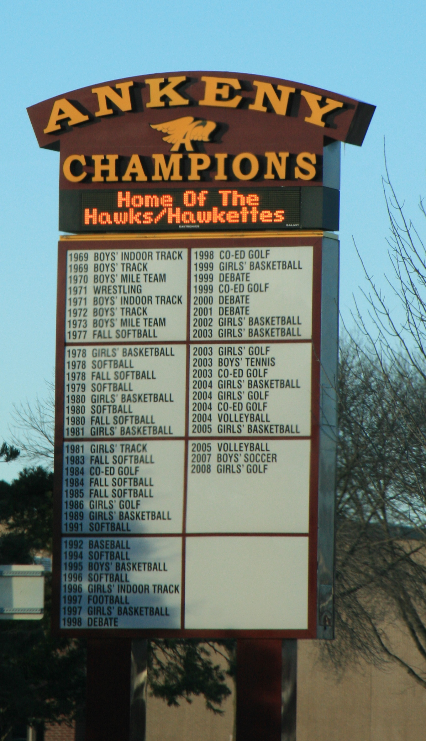 Sign outside the Ankeny High School listing various sporting achievements